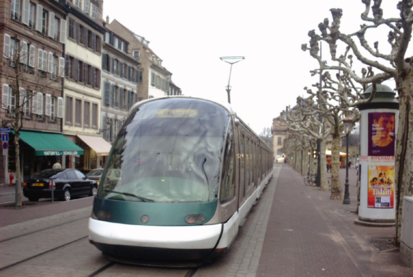 Tram in Strasbourg, France